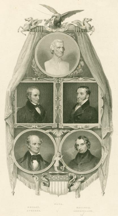 Frontispiece for the anthology The Poets and Poetry of America, collected by American editor Rufus Wilmot Griswold. Featuring poets Richard Henry Dana (Sr), William Cullen Bryant, Fitz-Greene Halleck, Charles Sprague, Henry Wadsworth Longfellow.